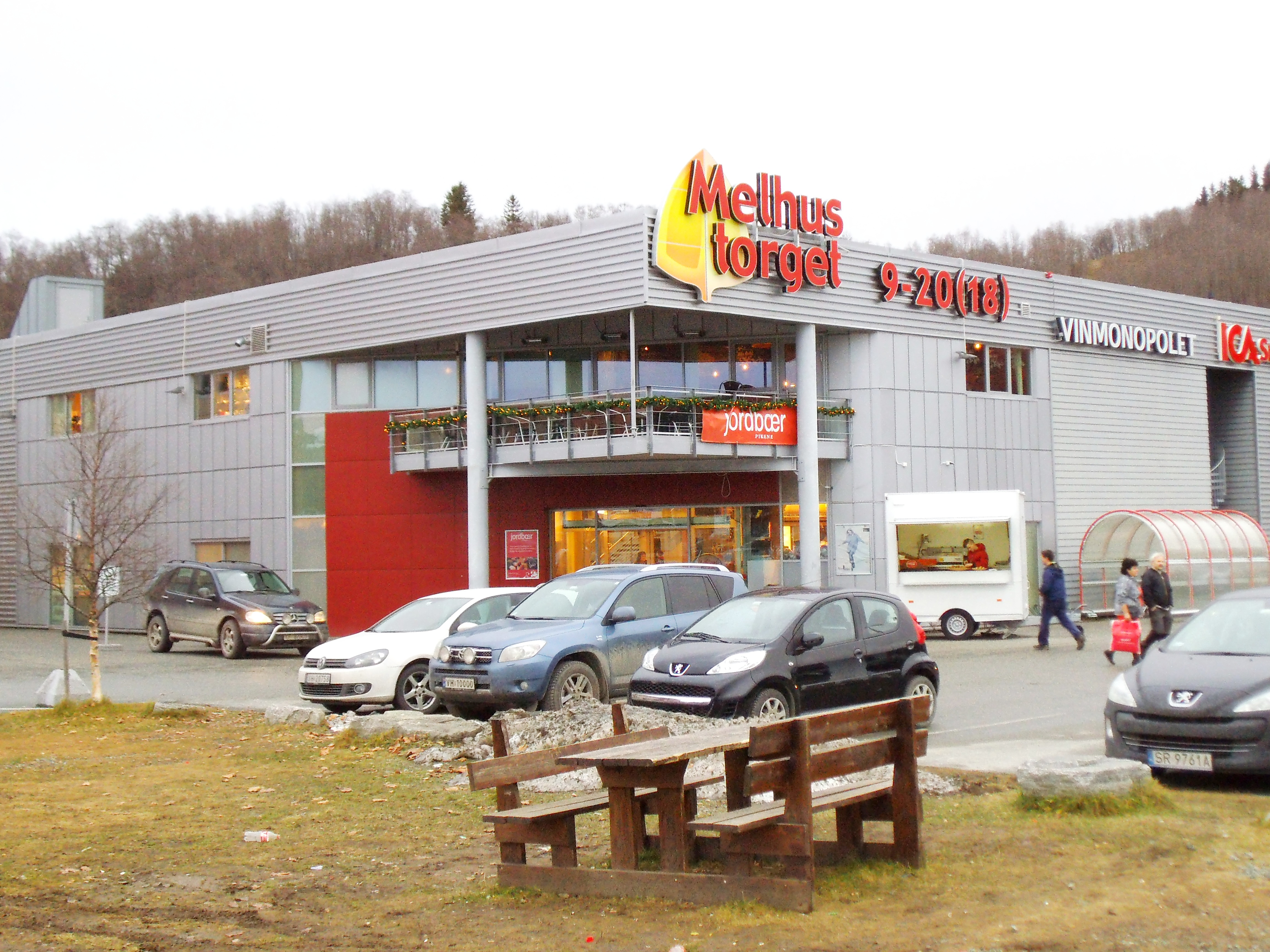 Melhustorget. A shopping mall in Melhus.